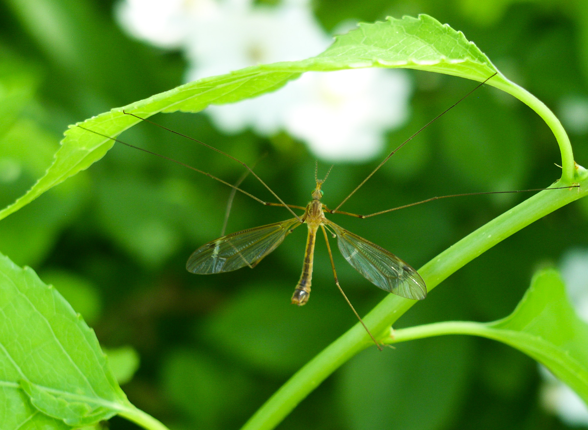 Tipula bicornis male. Pennypack Conservation Trust, Montgomery County, Pennsylvania, USA.